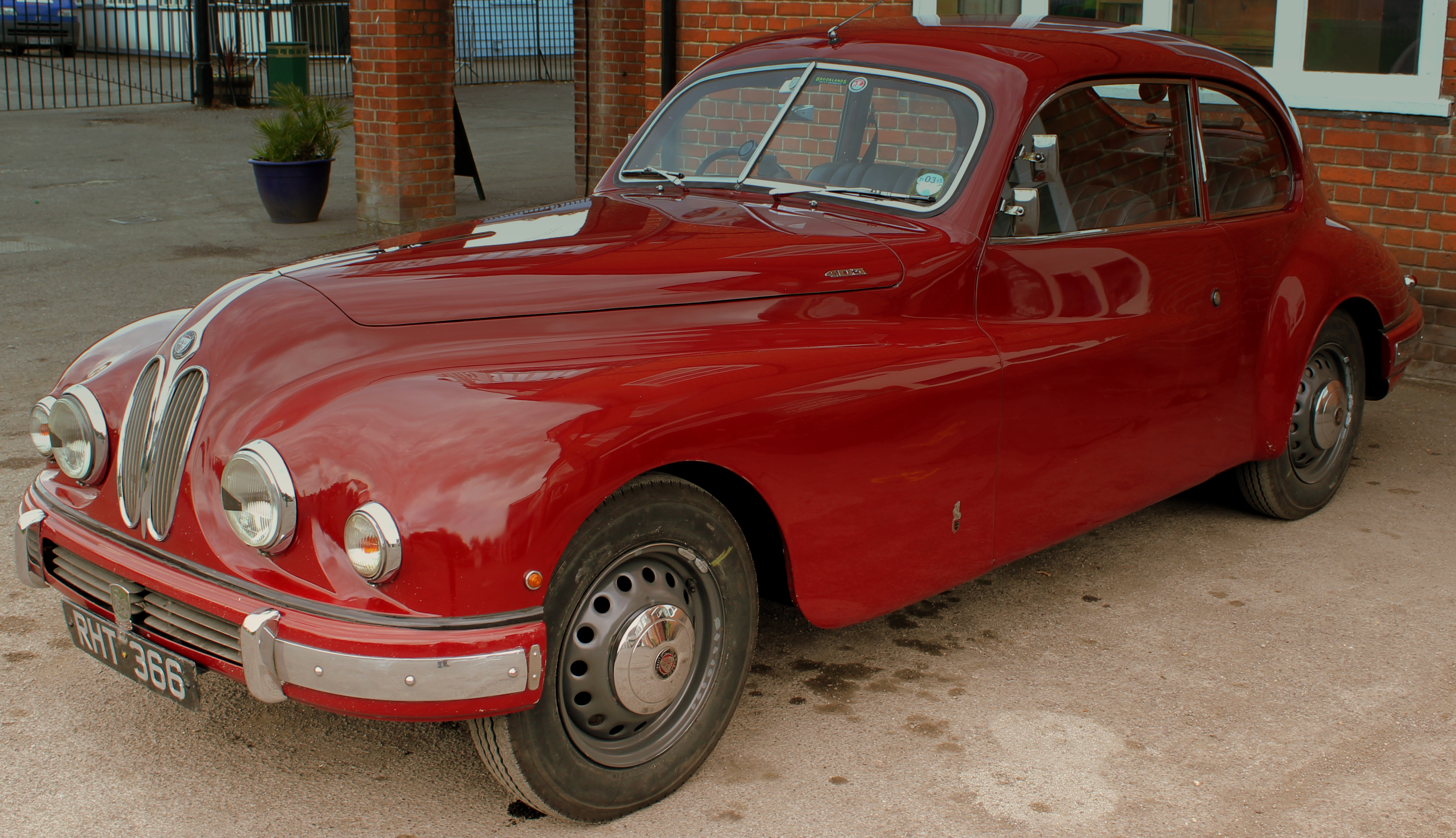 BRISTOL 403 RHT366 AT THE BROOKLANDS MUSEUM WEYBRIDGE SURREY JUNE 2014